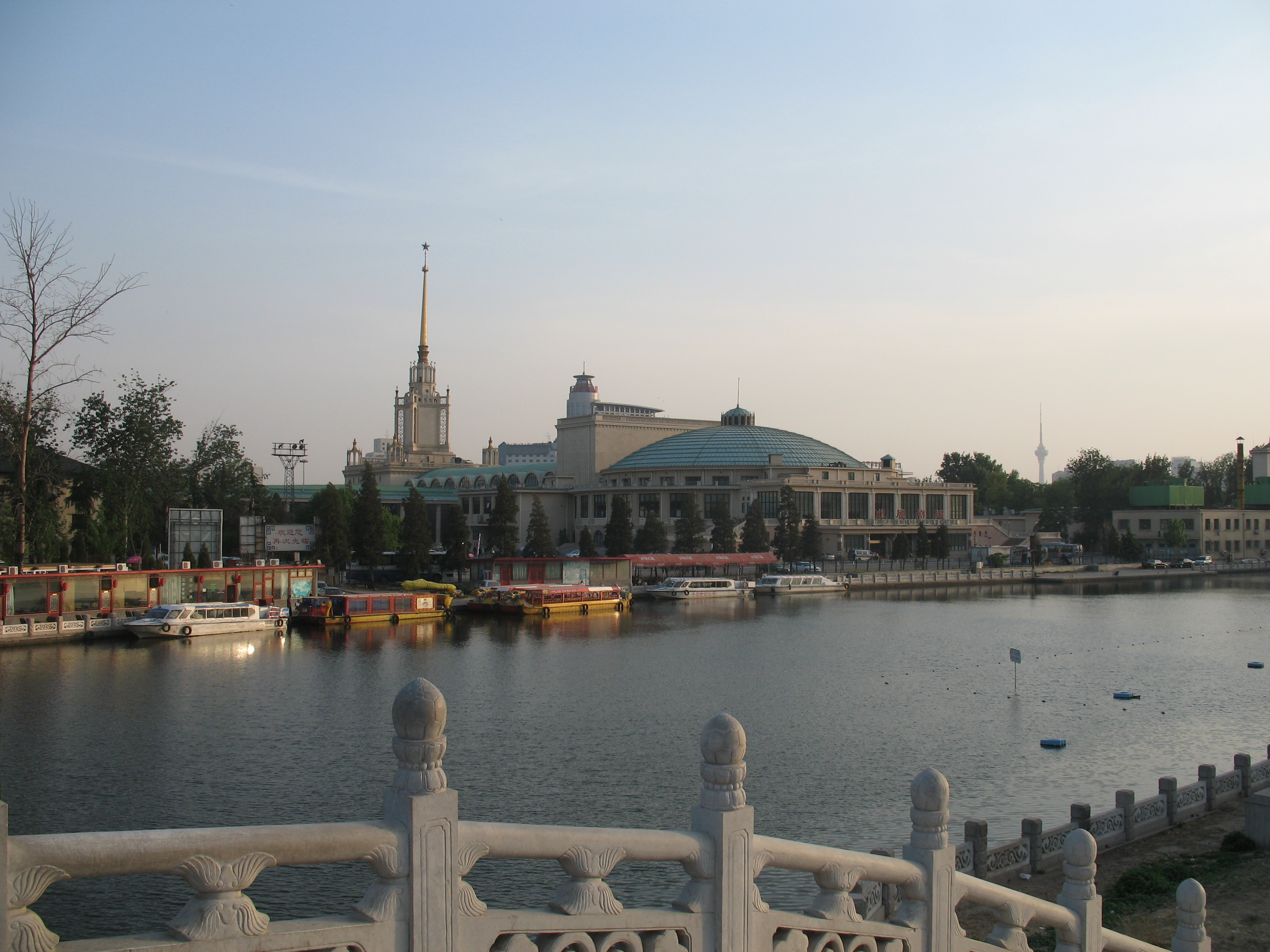 北展(Back of Beijing Exhibition Hall)